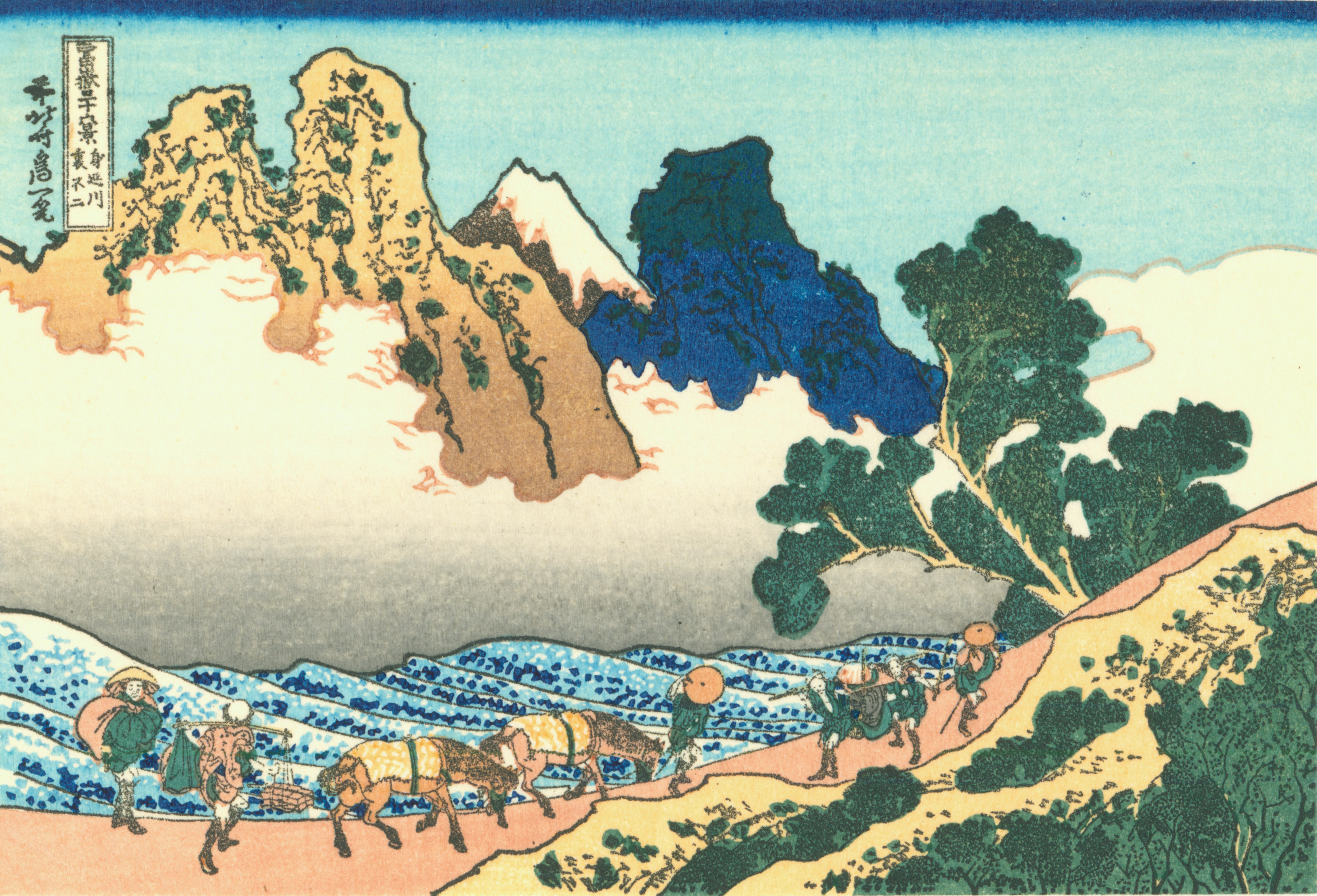 Part of the series Thirty-six Views of Mount Fuji, no. 46, 10th additional woodcut.